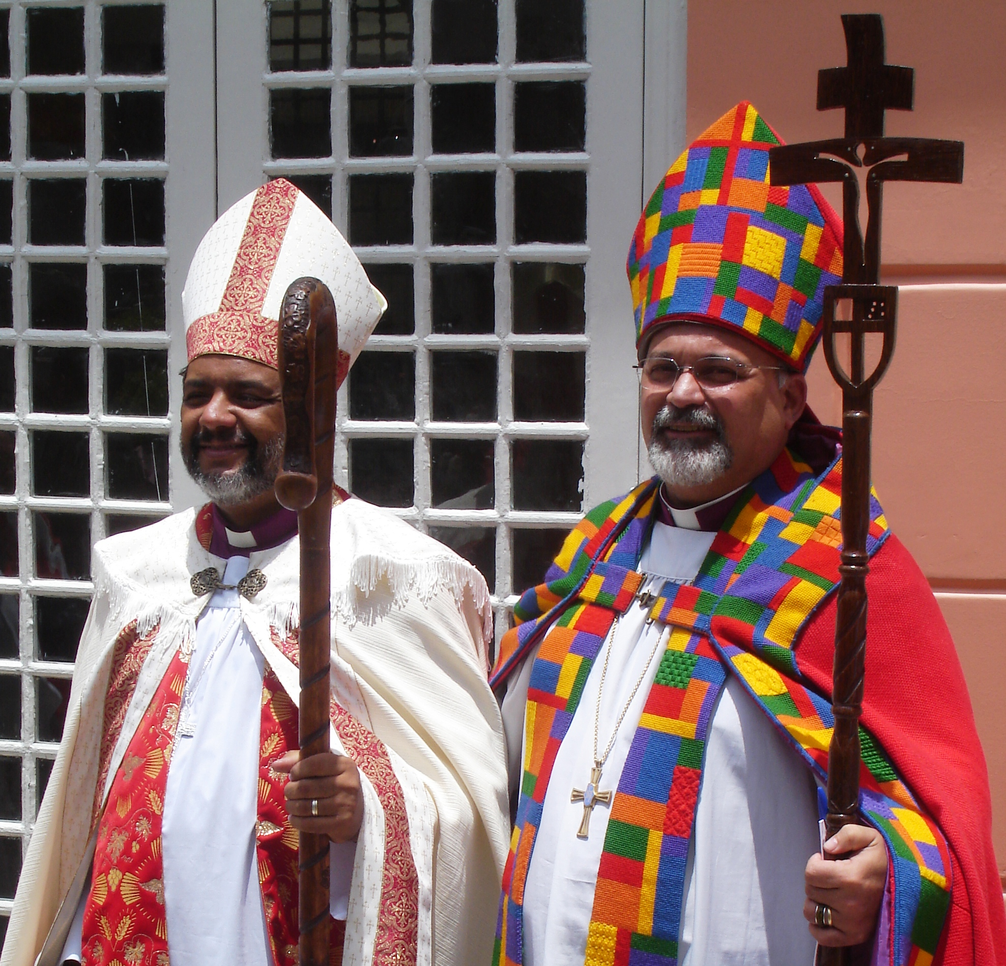 bishop Maurício Andrade, primate of the Anglican Episcopal Church of Brazil, and bishop Saulo Barros